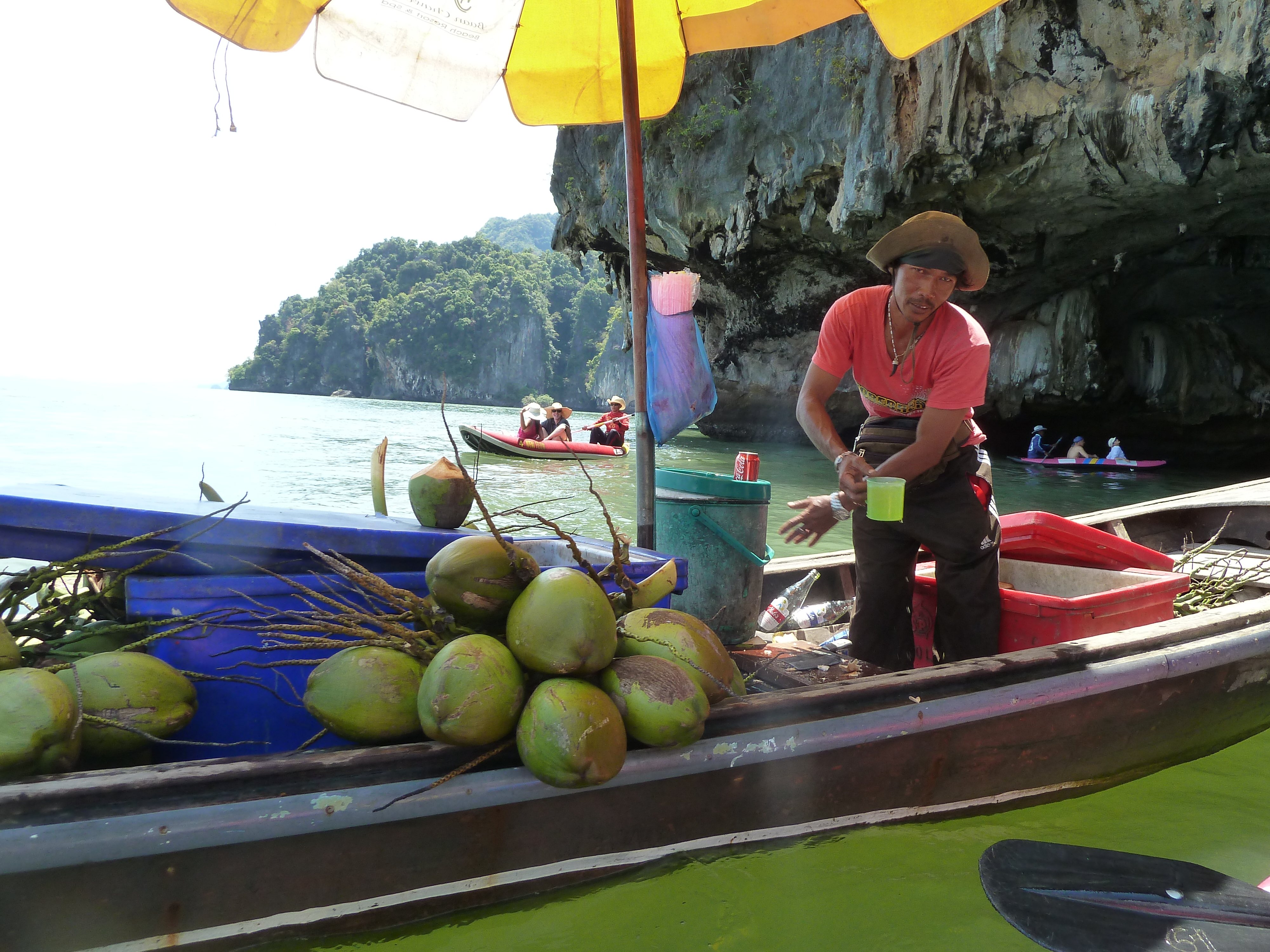 Ao Phang Nga National Park, Phang Nga Bay, Thailand